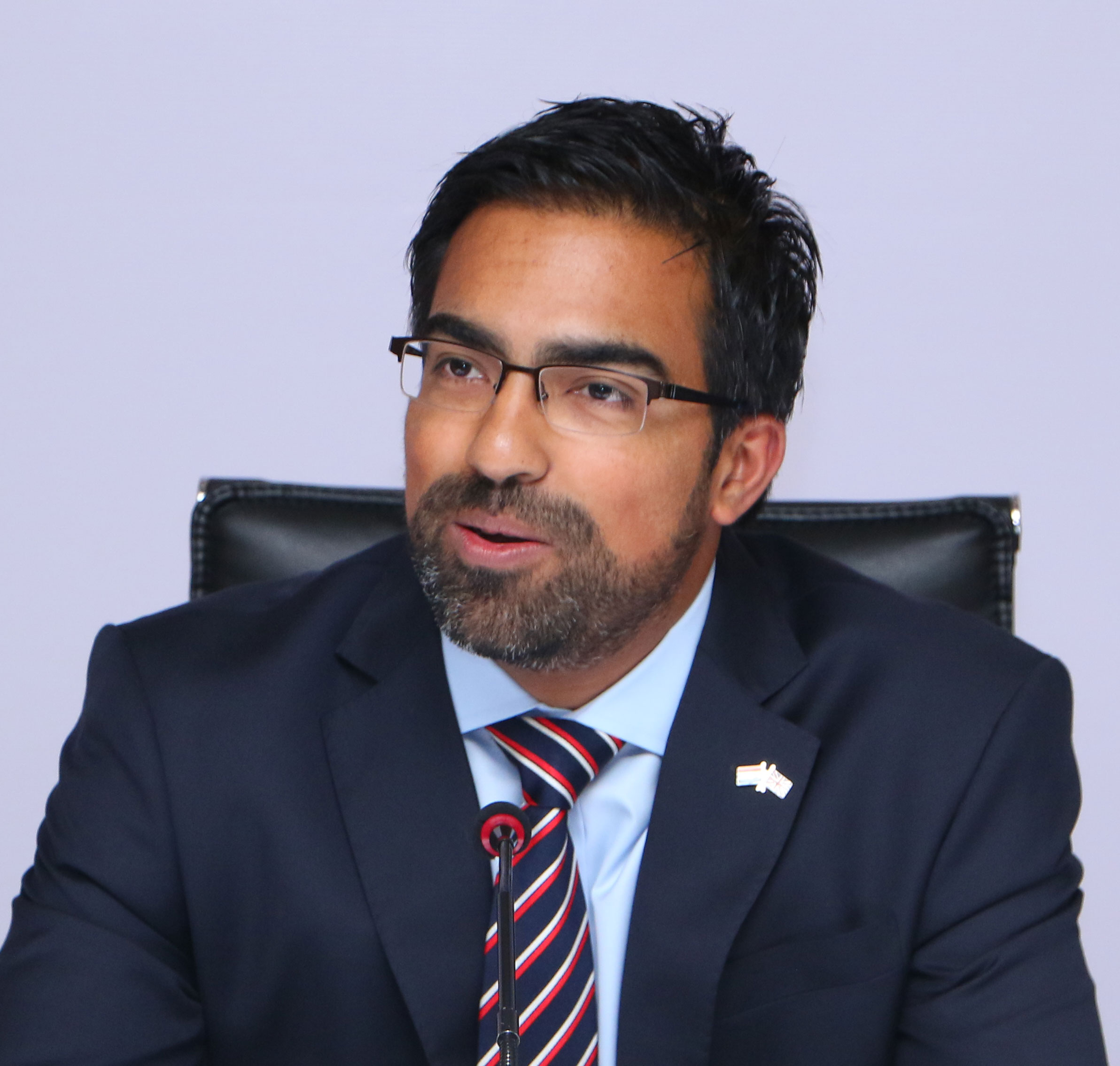 British Deputy High Commissioner, Mumbai and Director and Director General Trade, Economics & Prosperity, India